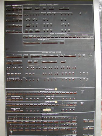 Upper Portion of ILLIAC II Control Panel. Courtesy systemBuilder, whose family owned the panel (~1970-2005) until donating it to the University of Illinois CS Department in 2005. Photo taken by systemBuikder on the day of the donation, March/April 2005, and released into the public domain.